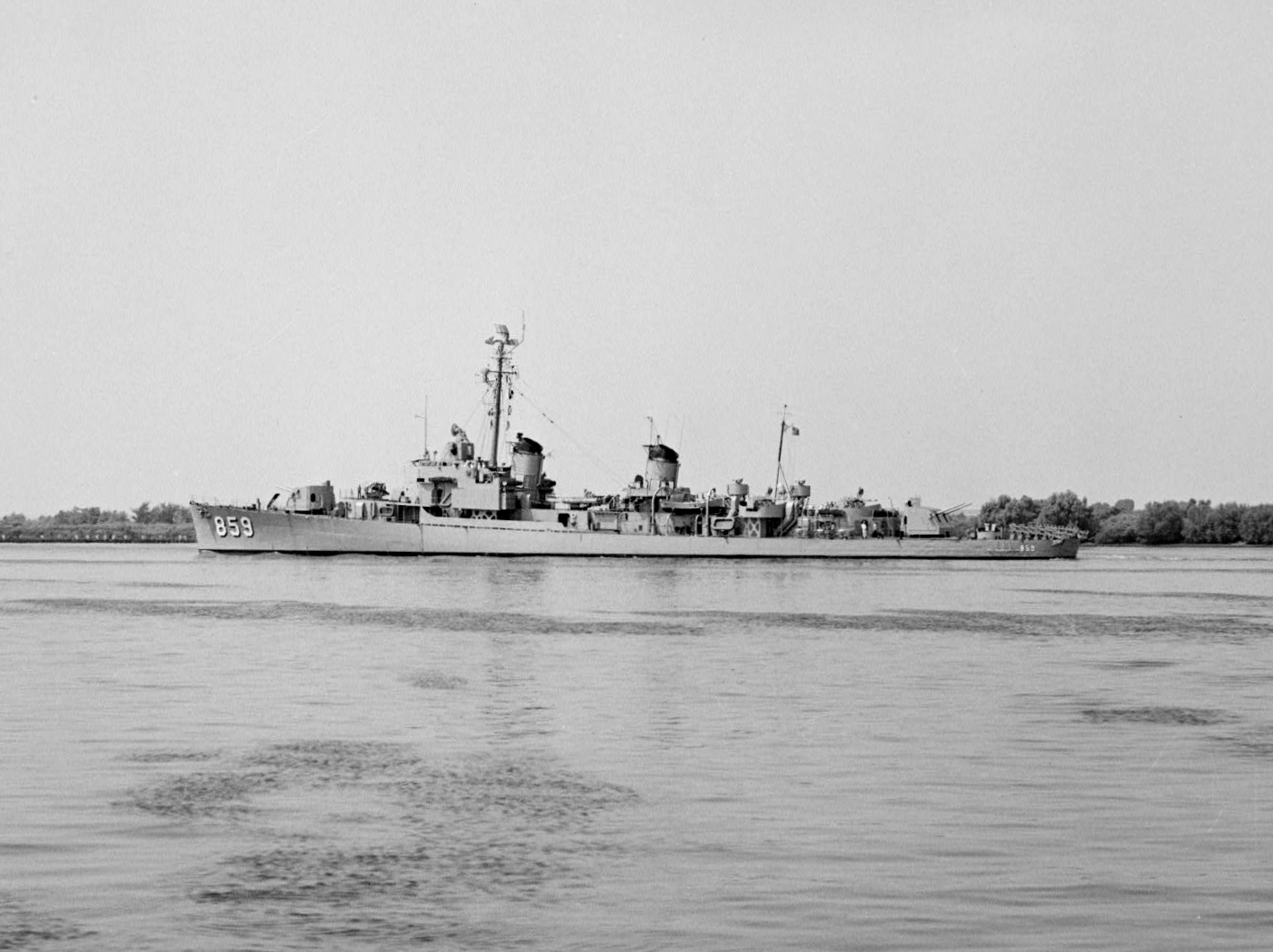 The U.S. Navy destroyer USS Norris (DDE-859) underway off the Philadelphia Naval Shipyard, Pennsylvania (USA), on 27 August 1953